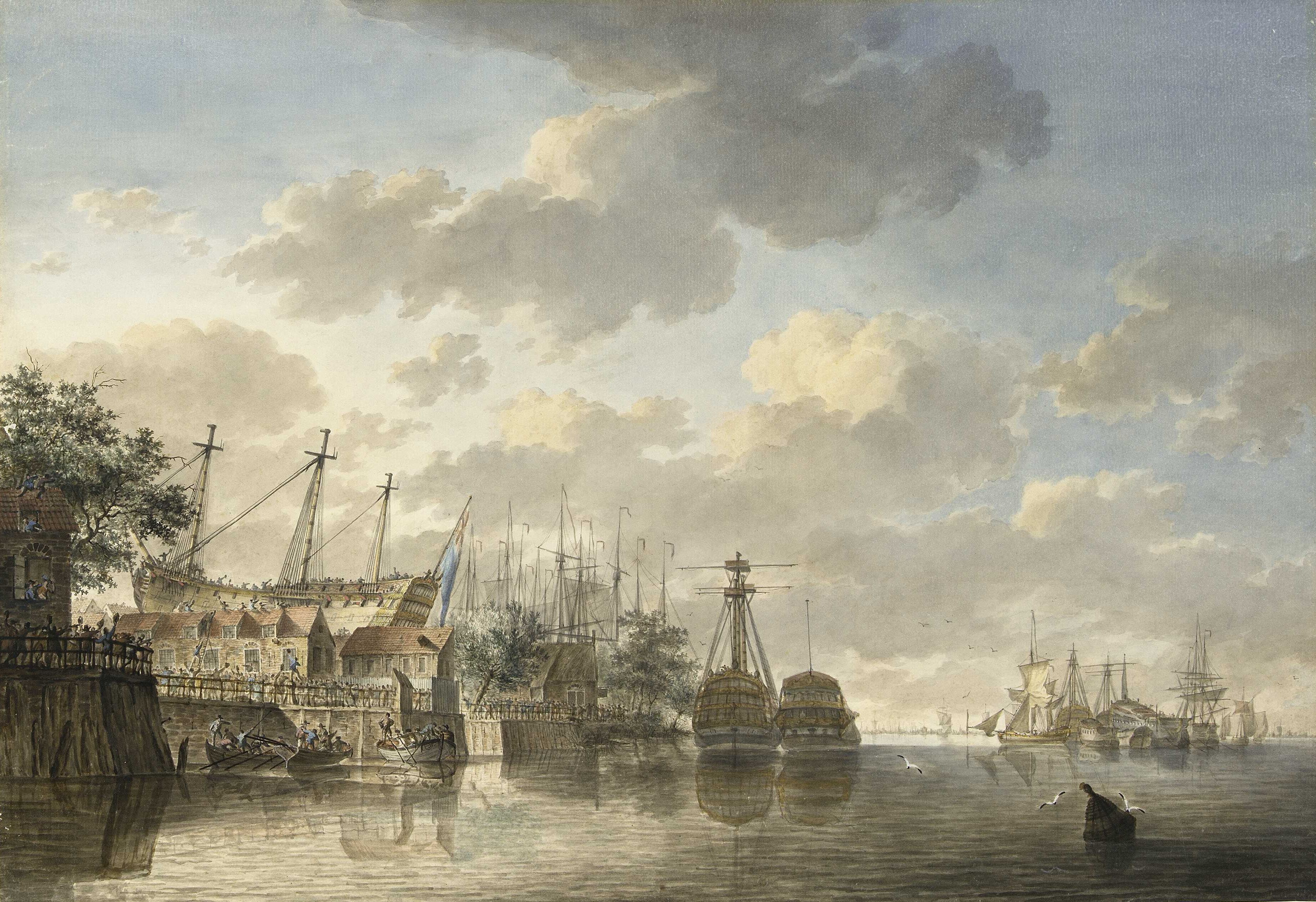 H.M. Ship 'Queen' at the King's Dock Woolwich Hendrik Kobell, a painter and etcher, was born and died in Rotterdam and was originally destined for a career in business. He received training as an artist during a business stay in England 1770-71, as well as in Amsterdam. He travelled throughout France, but returned to Rotterdam in 1773. While in England he exhibited a picture of a sea fight at the Free Society in 1770, and it is likely that this watercolour was painted in England. H.M. Ship 'Queen' at the King's Dock Woolwich